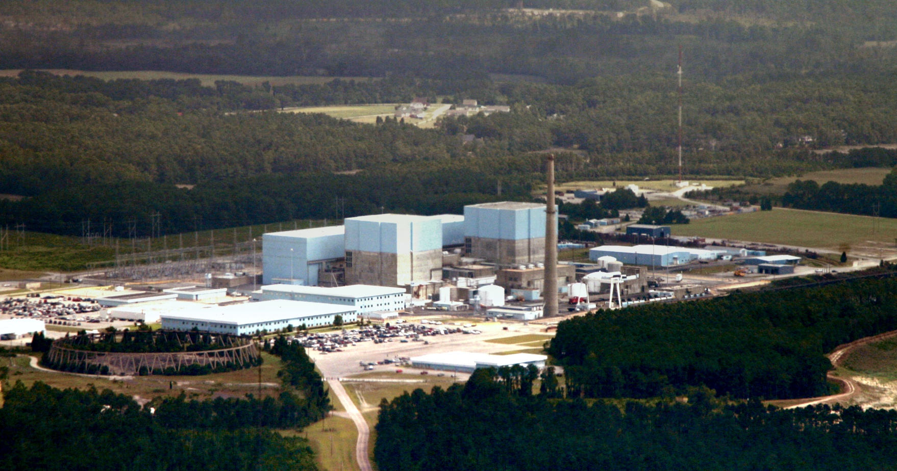 The Brunswick Nuclear Power Plant, two miles north of Soutport, NC.